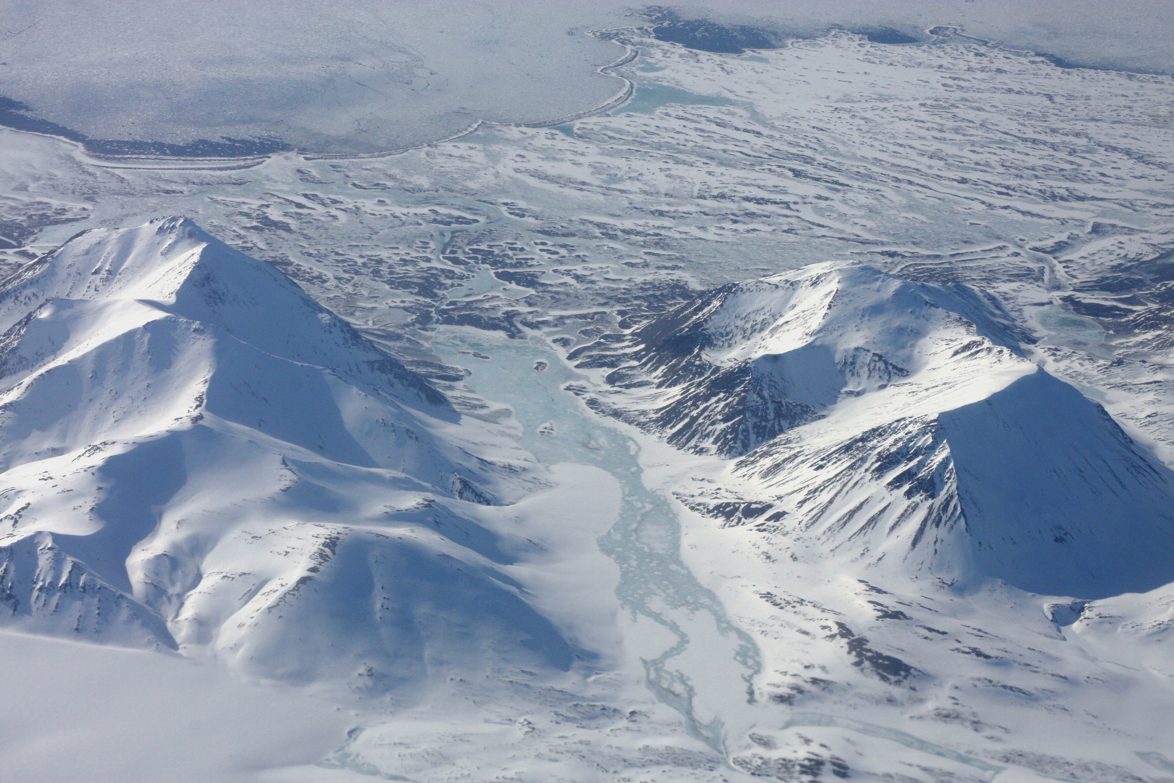 Northwestern coast of Wedel Jralsberg Land, Svalbard